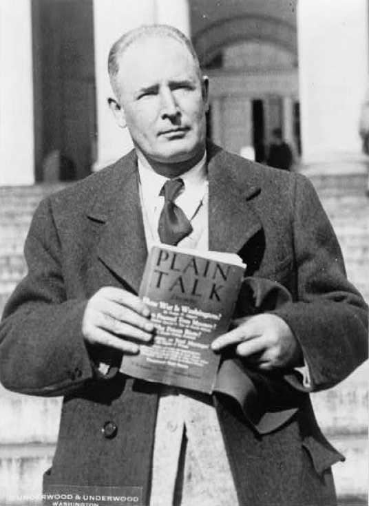 American journalist and murder victim Walter Liggett.